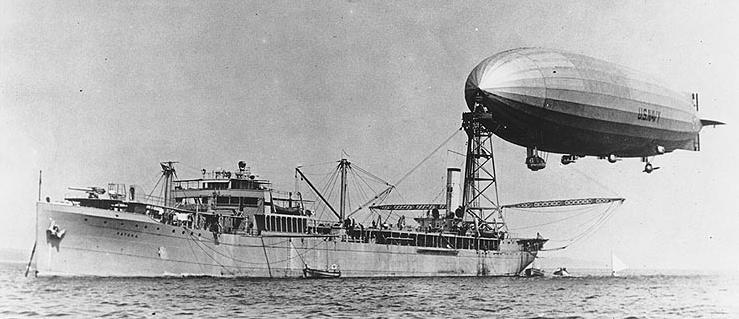 A cropped image of the USS Patoka with the USS Shenandoah moored to it.